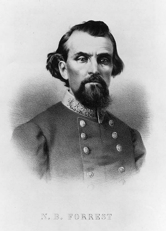 A lithograph with tintstone on paper of Gen. Nathan Bedford Forrest by John Lawrence Giles. Giles produced the lithograph in 1868 using a wartime image of Forrest taken in 1864. National Portrait Gallery, Smithsonian Institution: Object number: S/NPG.79.16